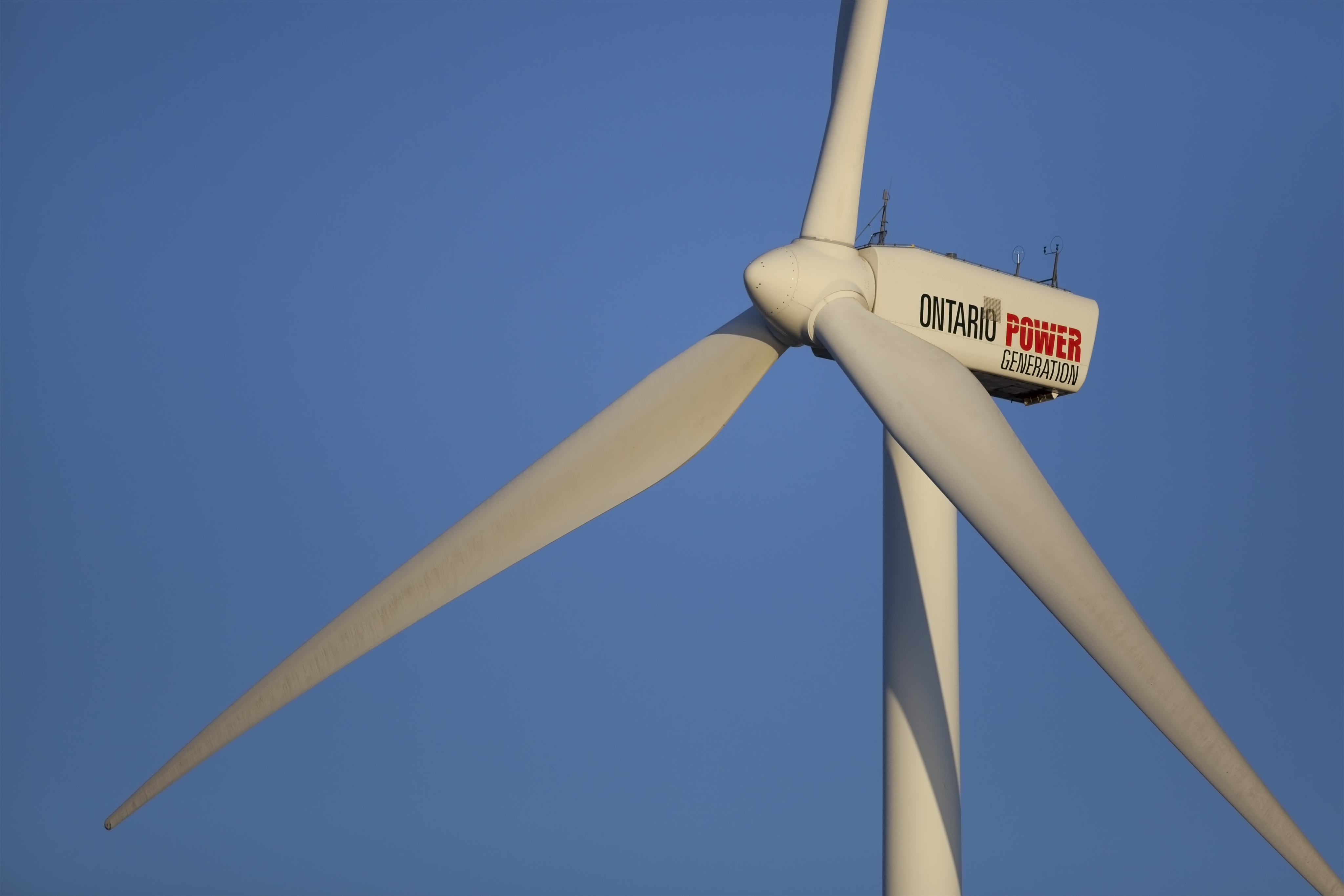 The OPG 7 Gomberg Turbine -- Pickering, Ontario, Canada -- 2009 February